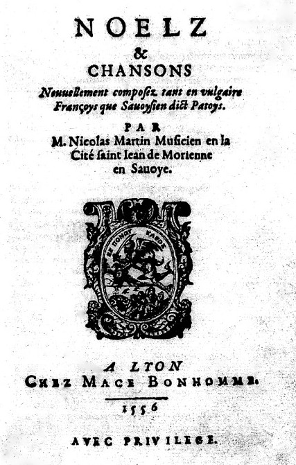 Title page of Nicolas Martin's Noelz, 1555